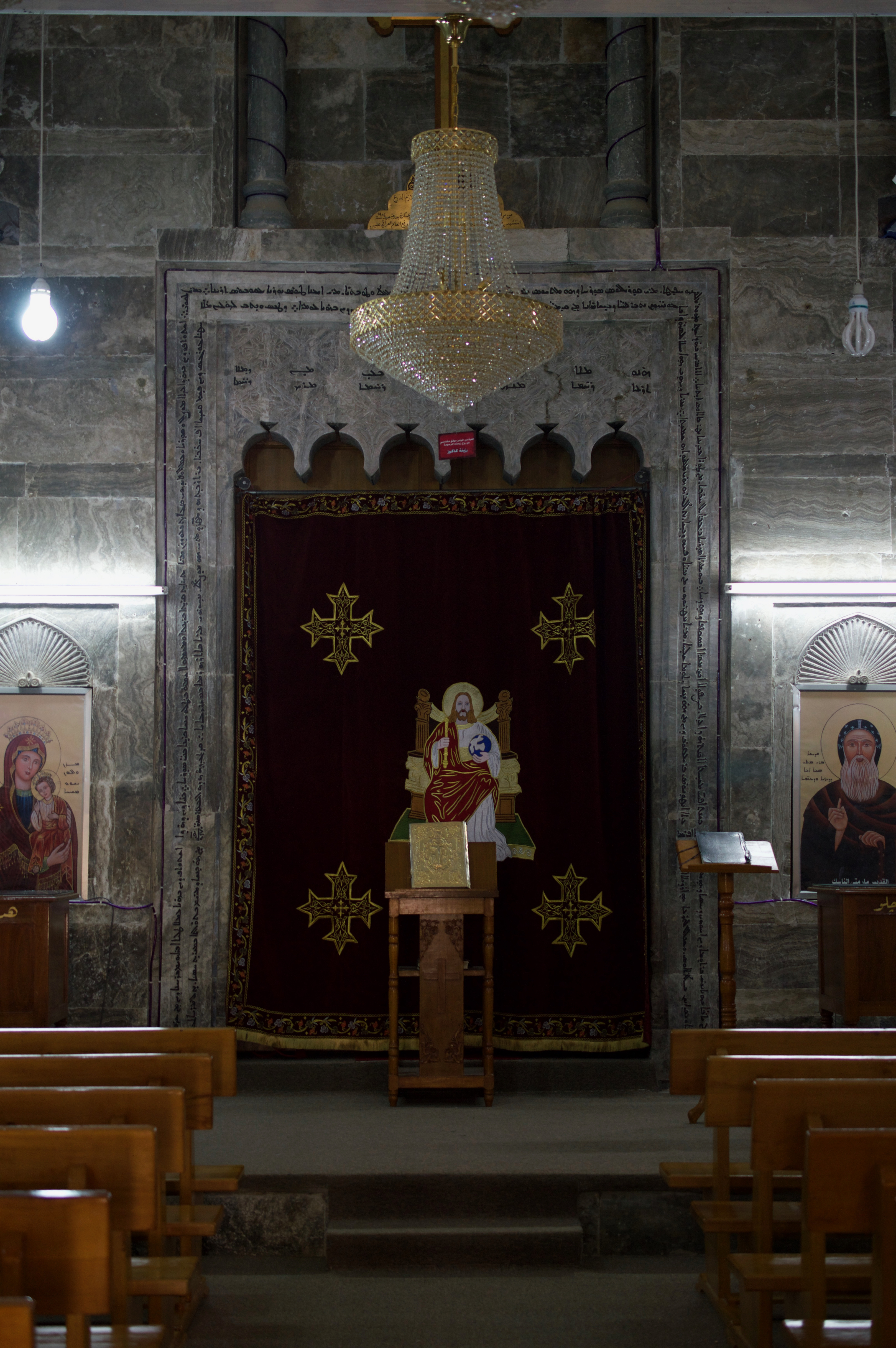 Saint Matthew Monastery (Der Mar Matti), a Syriac Orthodox monastery overlooking the Nineveh Plains towns of Bashiqa and Bartella, in between the Kurdistan Region and Iraq.